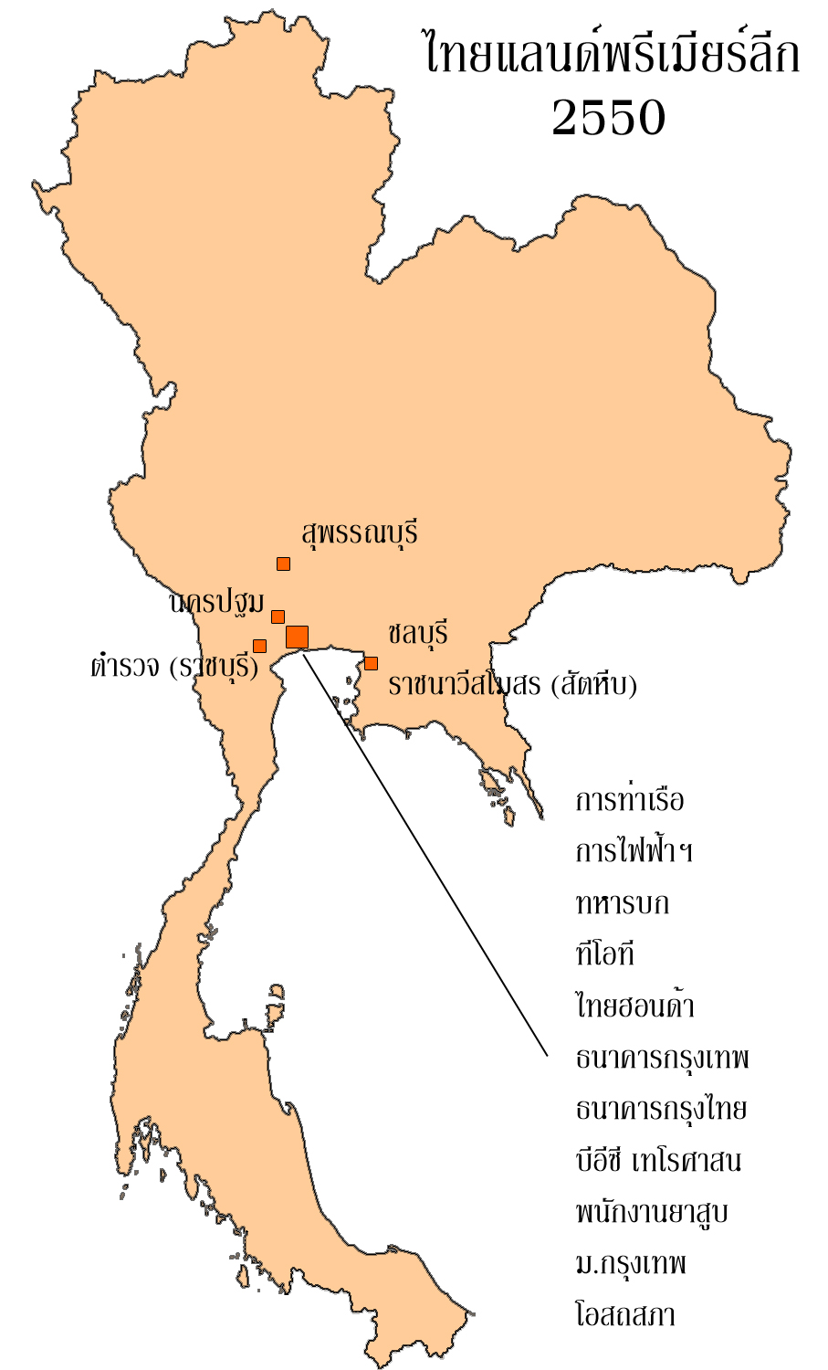 Location of football (soccer) clubs in Thailand Premier League 2550